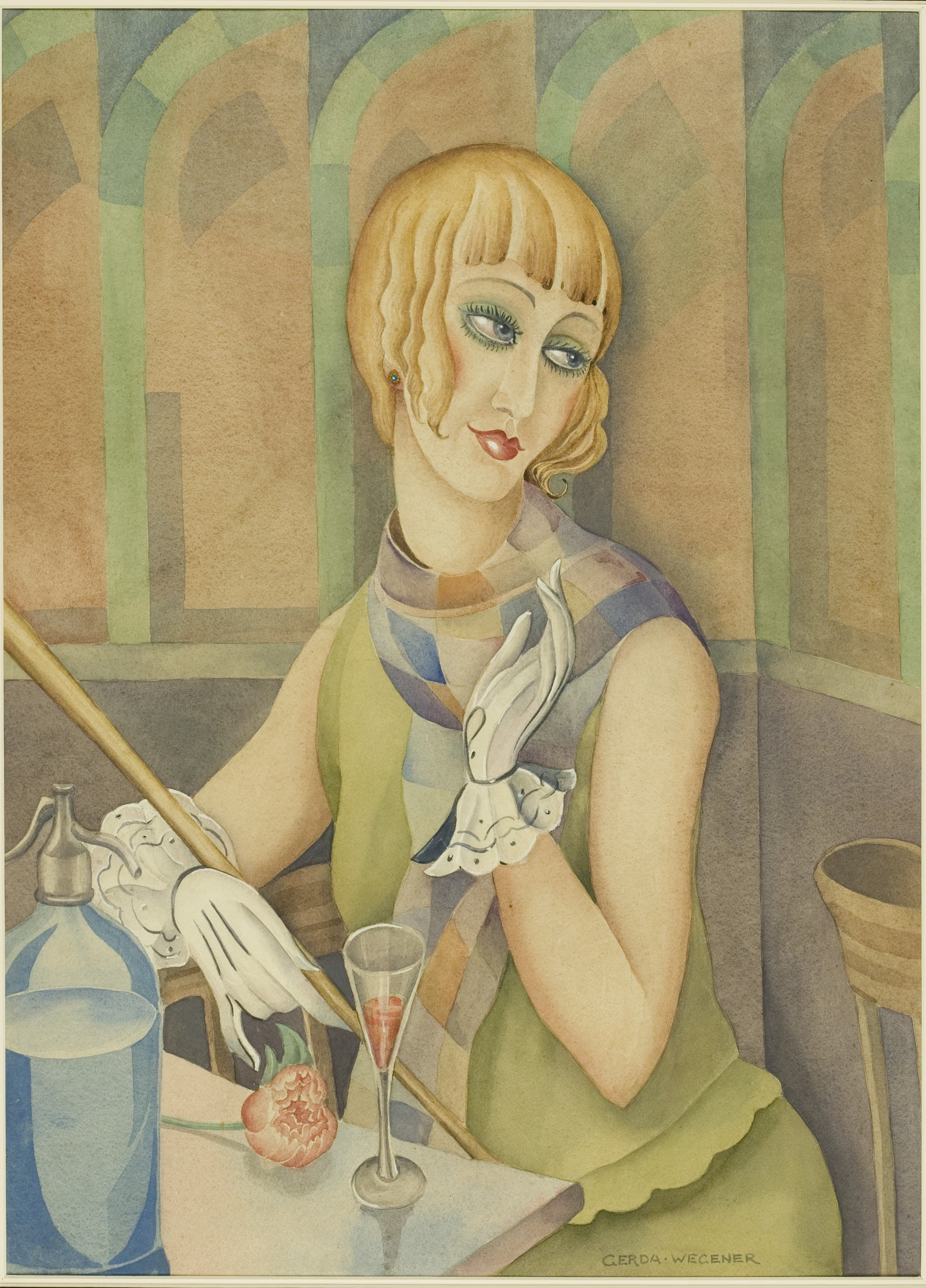 Lili Elbe was trans woman. She was born a male in Denmark in 1882 and named Einar Wegener. He married Gerda Wegener: they were both painters. He changed sex and was called Lili Elbe. Elbe had several surgical operations to reconfigure her genital organs, and died in the course of her fifth operation. Iconographic Collections Keywords: Gerda. Wegener; Fashion; Costume; Lili Elbe